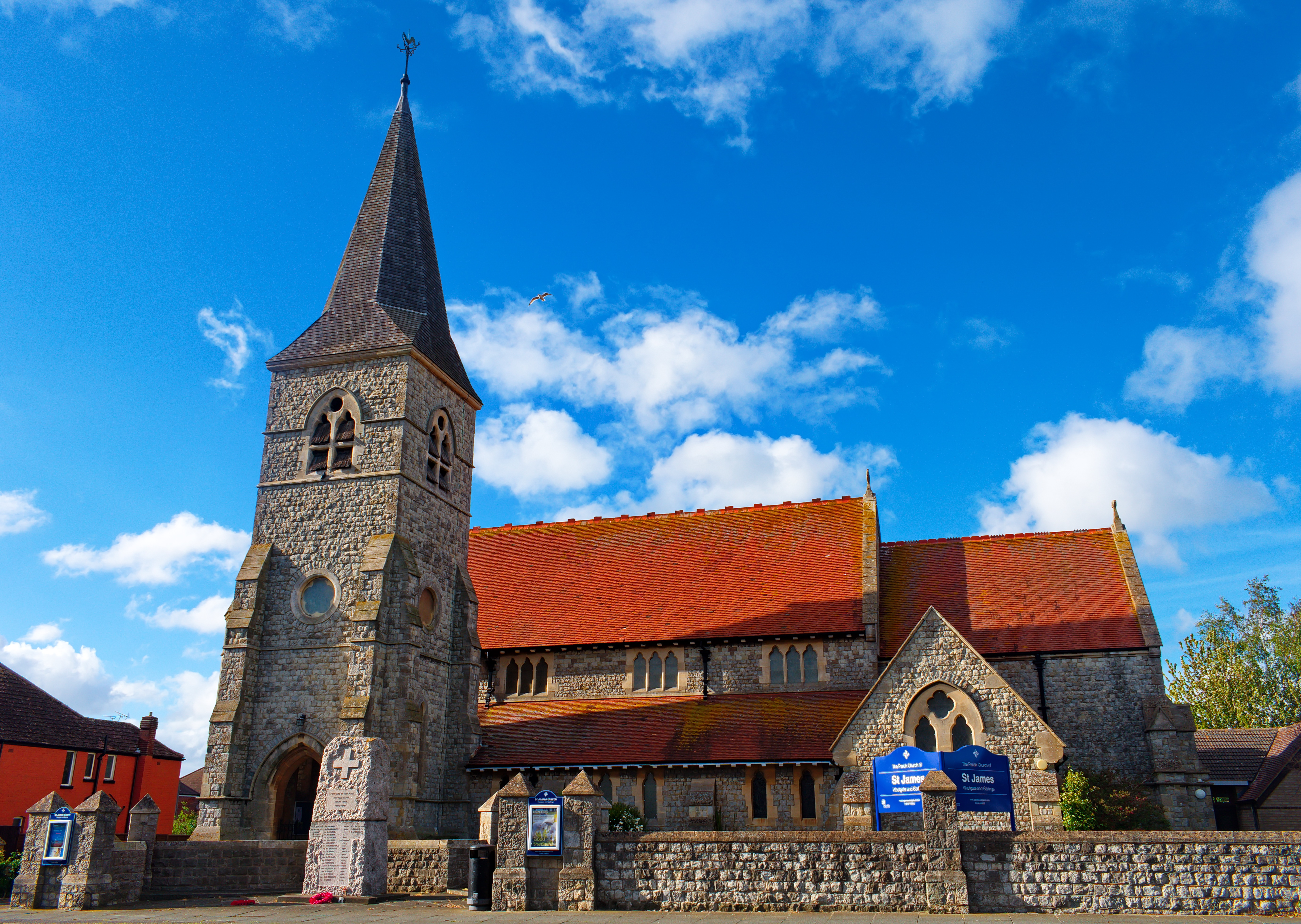 St James' Church in Westgate-on-Sea, Kent.